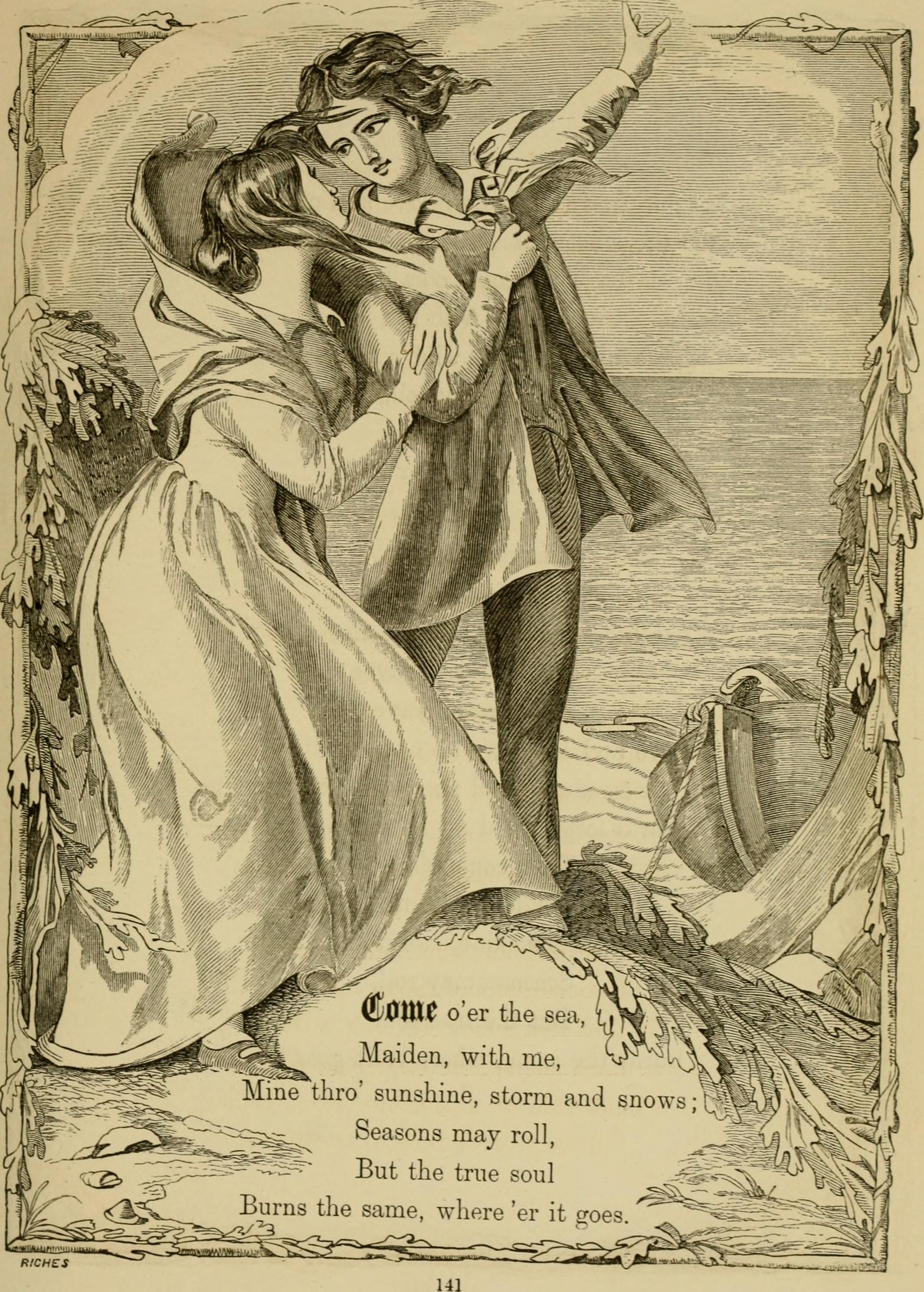 Title: Literature, art and song: Moore's melodies and American poems; Year: 1872 (1870s) Authors: Moore, Thomas, 1779-1852 Mackenzie, R. Shelton (Robert Shelton), 1809-1880 Stevenson, John Andrew, Sir 1760?-1833 Maclise, Daniel, 1806-1870, illus Riches, William, joint illus Subjects: Publisher: New York, International publishing company Text Appearing Before Image: If thus the young hours have fleeted. When sorrow itself lookd bright;If thus the fair hope hath cheated, That led thee along so light;If thus the cold world now wither Each feeling that once was dear:—Come child of misfortune, come hither, I 11 weep with thee, tear for tear. i^ -vJl^^^ii Text Appearing After Image: '